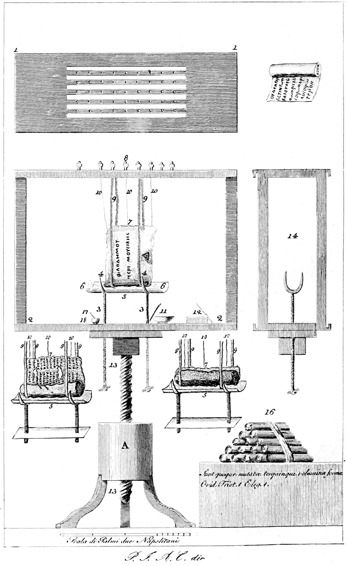 Mechanism used to unroll papyrus scrolls, designed by Padre Antonio Piaggio delle Scuole Pie in 1756. Image from book: Tesoro letterario di Ercolano, ossia, la reale officina dei papiri ercolanesi, Stamperia e cartiere del Fibreno, Naples, 1858.